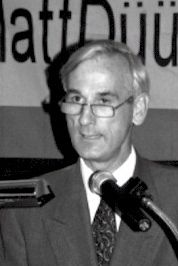 Jürgen Chrobog, former Secretary of State in the German foreign office.